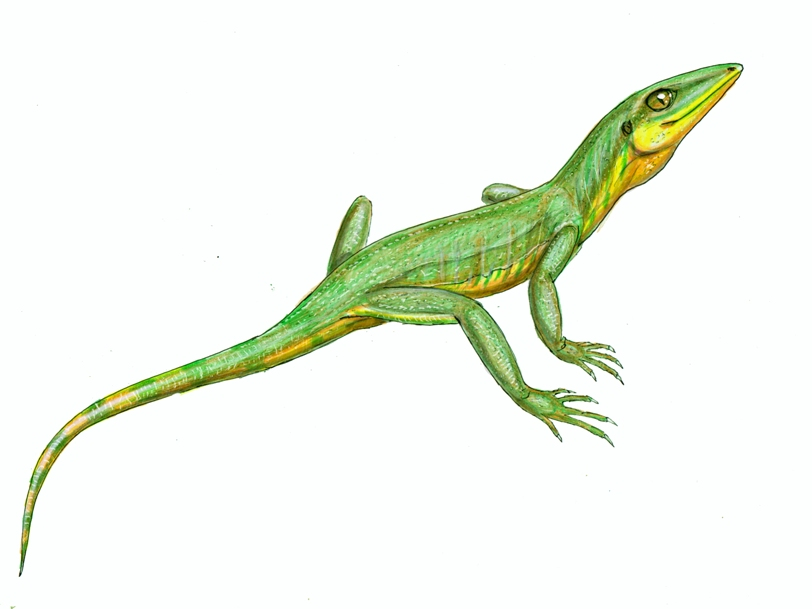 Lanthanolania